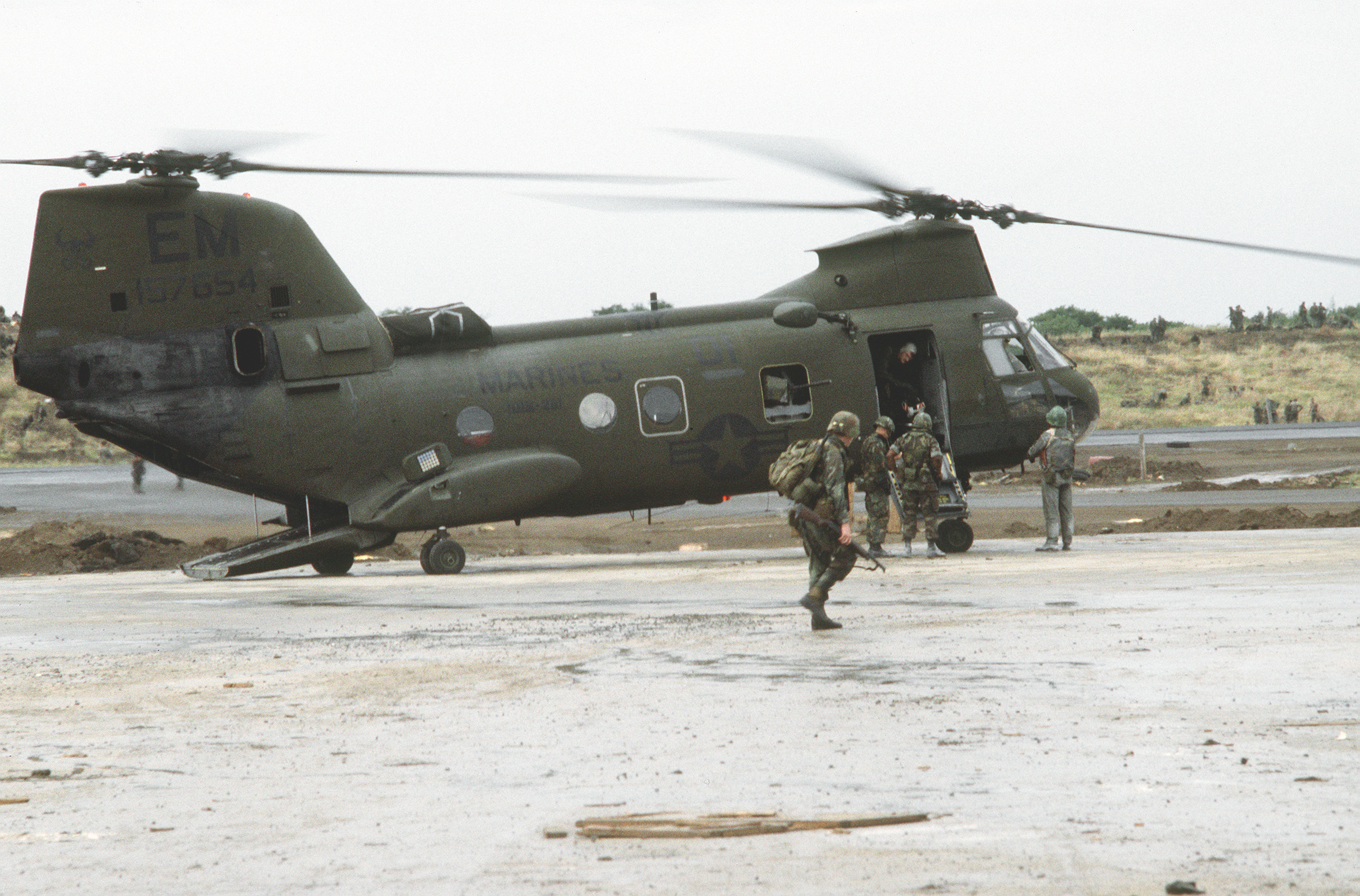 A U.S. Marine Corps Boeing CH-46E Sea Knight helicopter (BuNo 157654) from Marine Medium Helicopter Squadron (HMM) 261 Raging Bulls awaits Rangers from 2nd Battalion to load prior to rescue of students from Grand Anse Beach Campus during "Operation Urgent Fury", the invasion of Grenada, on 3 November 1983.